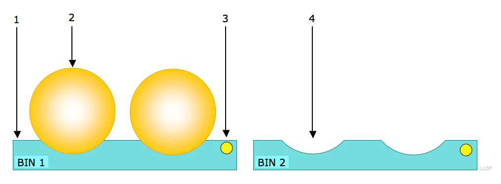 Bin principle. Description of the bin.